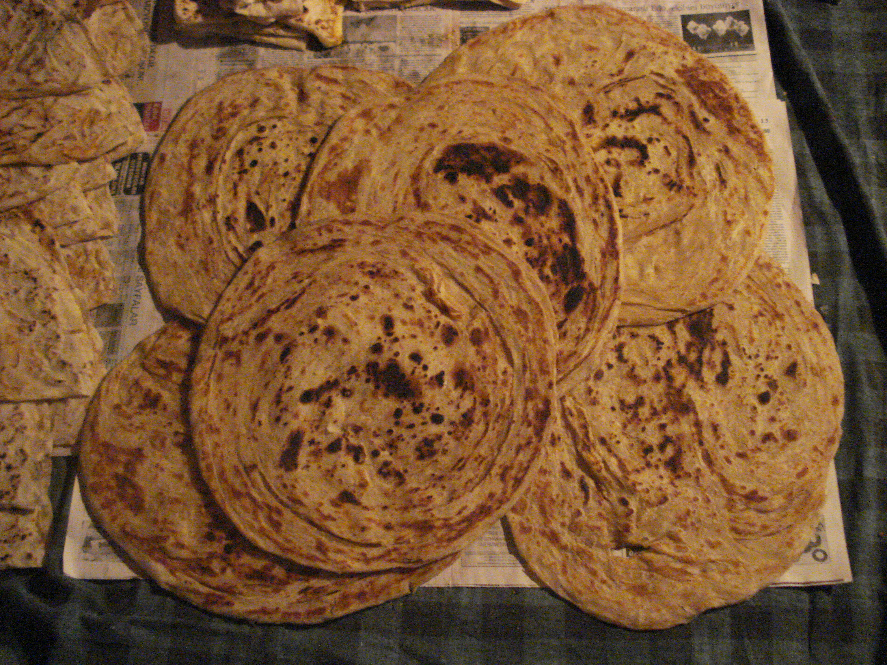 Katmer from Turkish cuisine